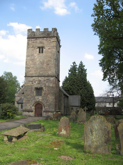 Llantarnam Church With Tudor tower and of early 12th century design, St Michael and All Angels Church in Llantarnam.